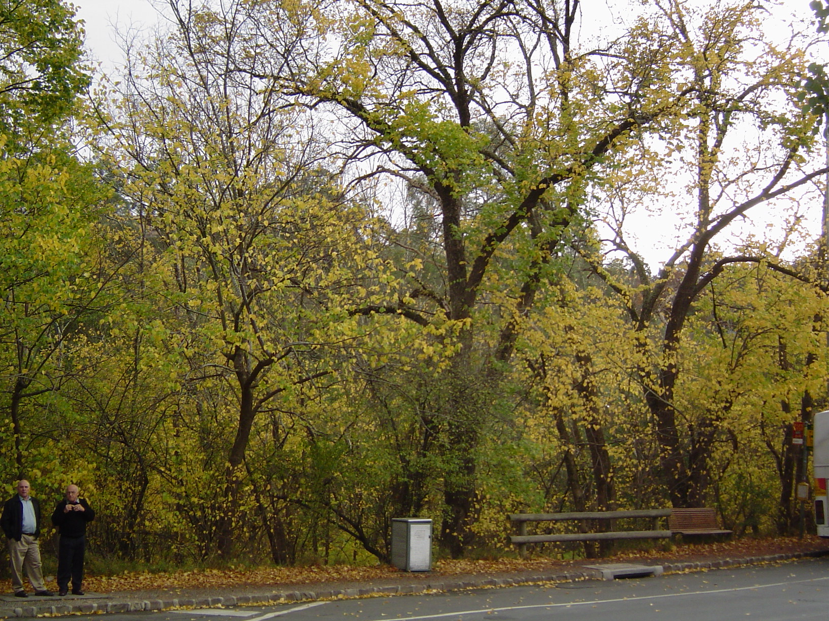 Some European trees allongside the main street in Warrandyte during autumn. Image taken by me in 2005.